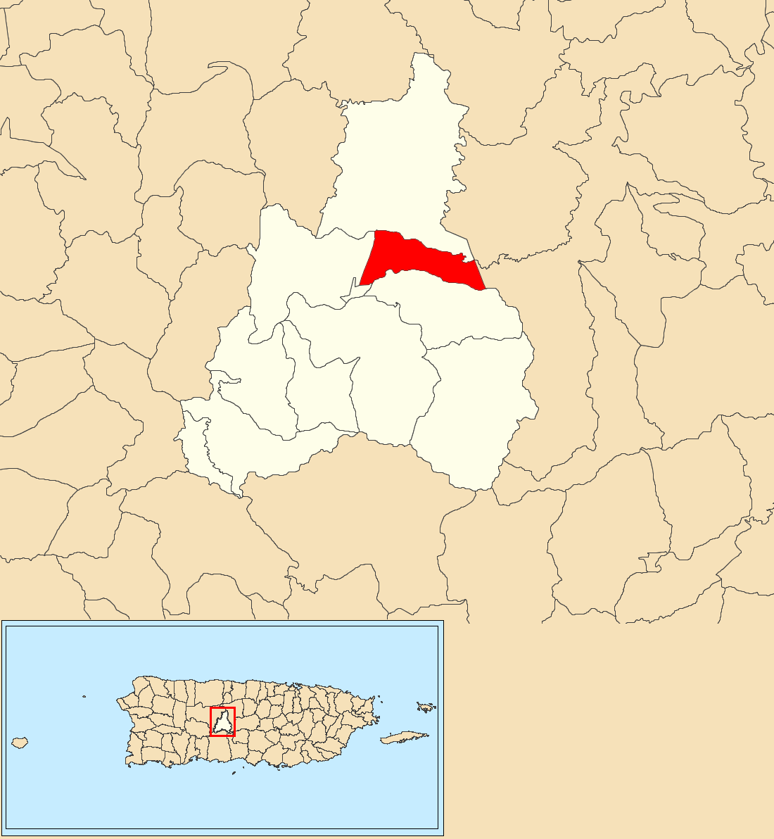 Río Grande, Jayuya, Puerto Rico locator map